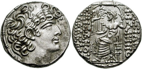 A coin struck by the romans imitating the coins of Philip I Philadelphus of Syria